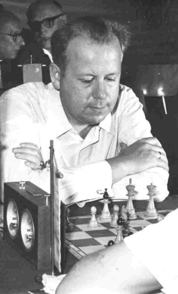 International Grandmaster Wolfgang Uhlmann at the 5th Rubinstein Memorial in 1967 in Polanica-Zdrój (Poland)